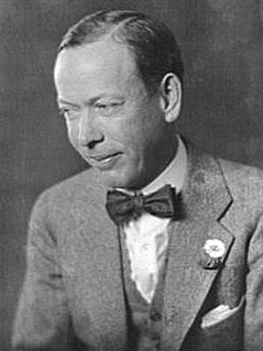 american actor, director & playwright Frank Craven (1875-1945)